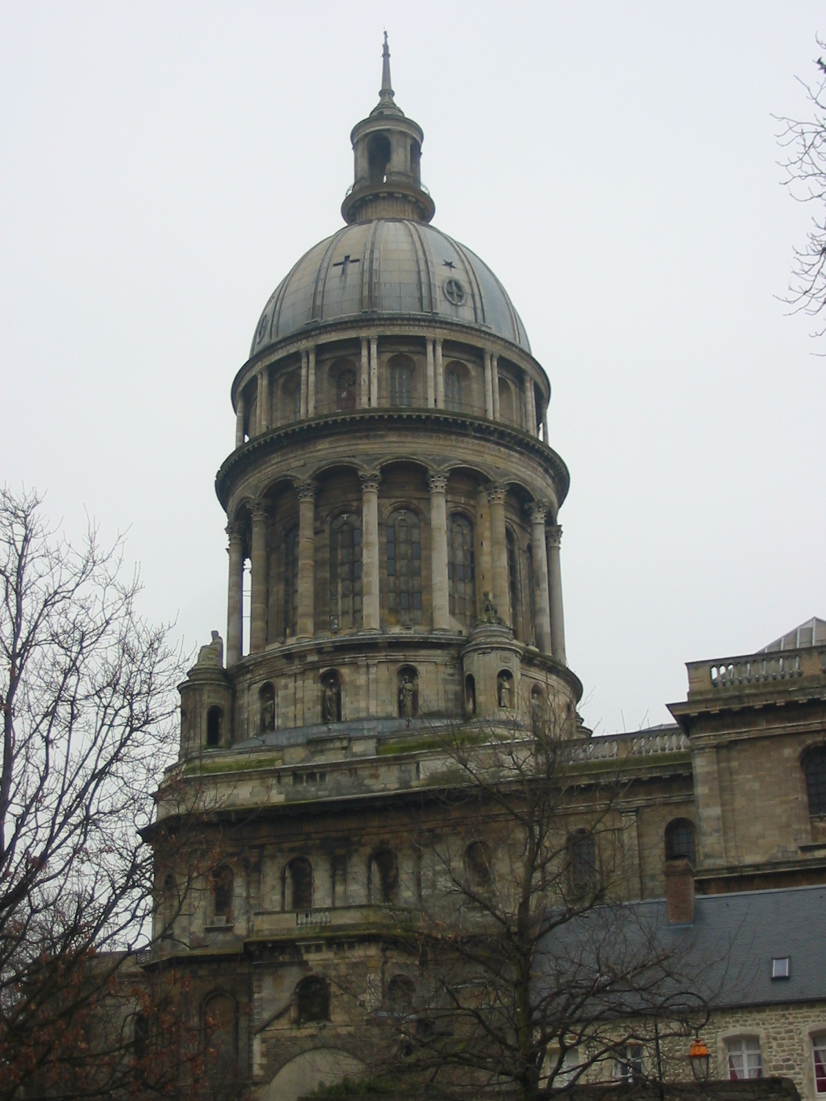 Cathedral, Boulogne-sur-Mer, France.